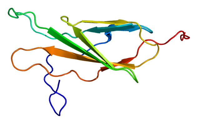 Structure of the EPHA1 protein. Based on PyMOL rendering of PDB 1x5a.